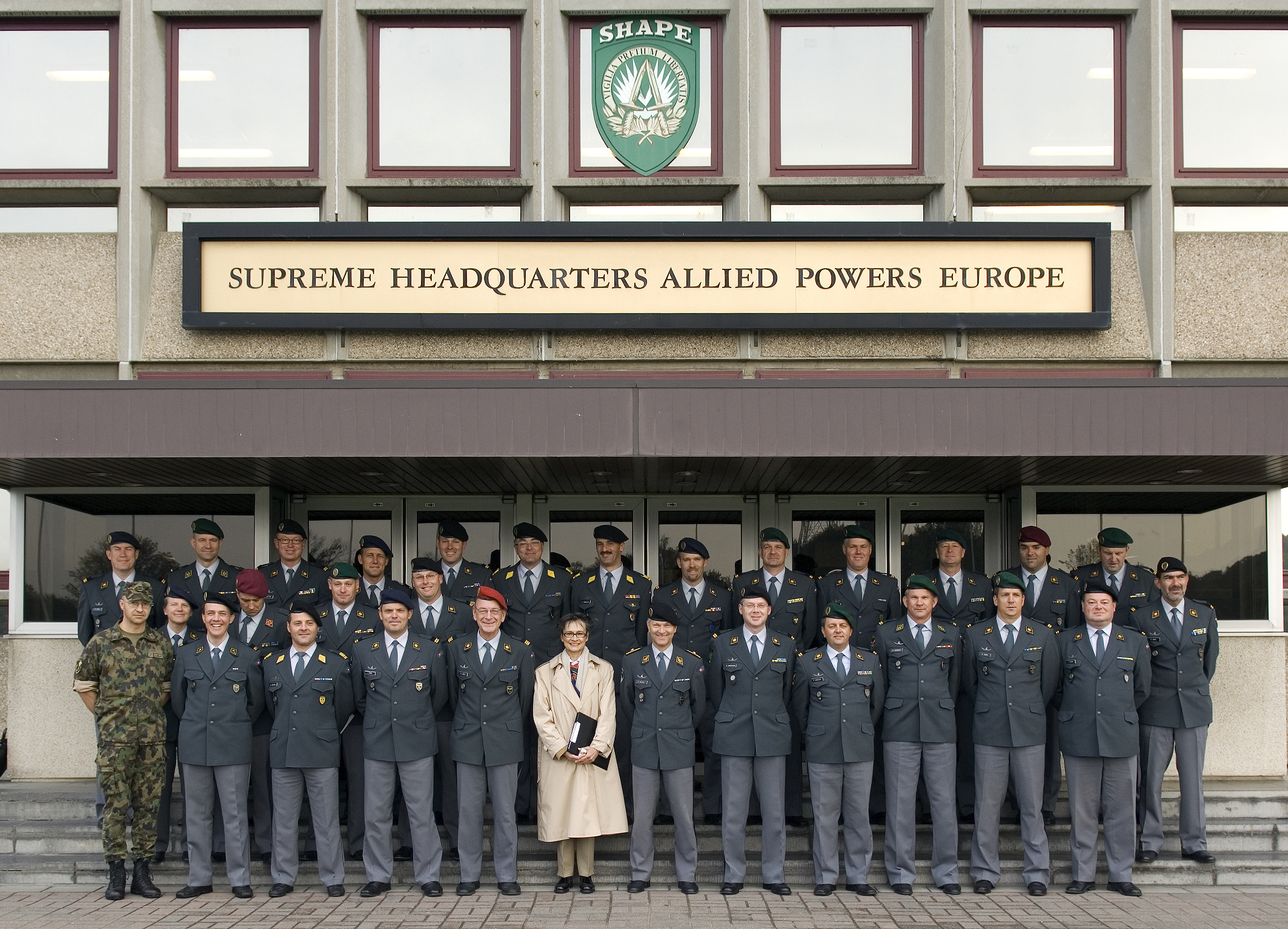 A group with the Swiss Military Academy visits Supreme Headquarters Allied Powers Europe (SHAPE).